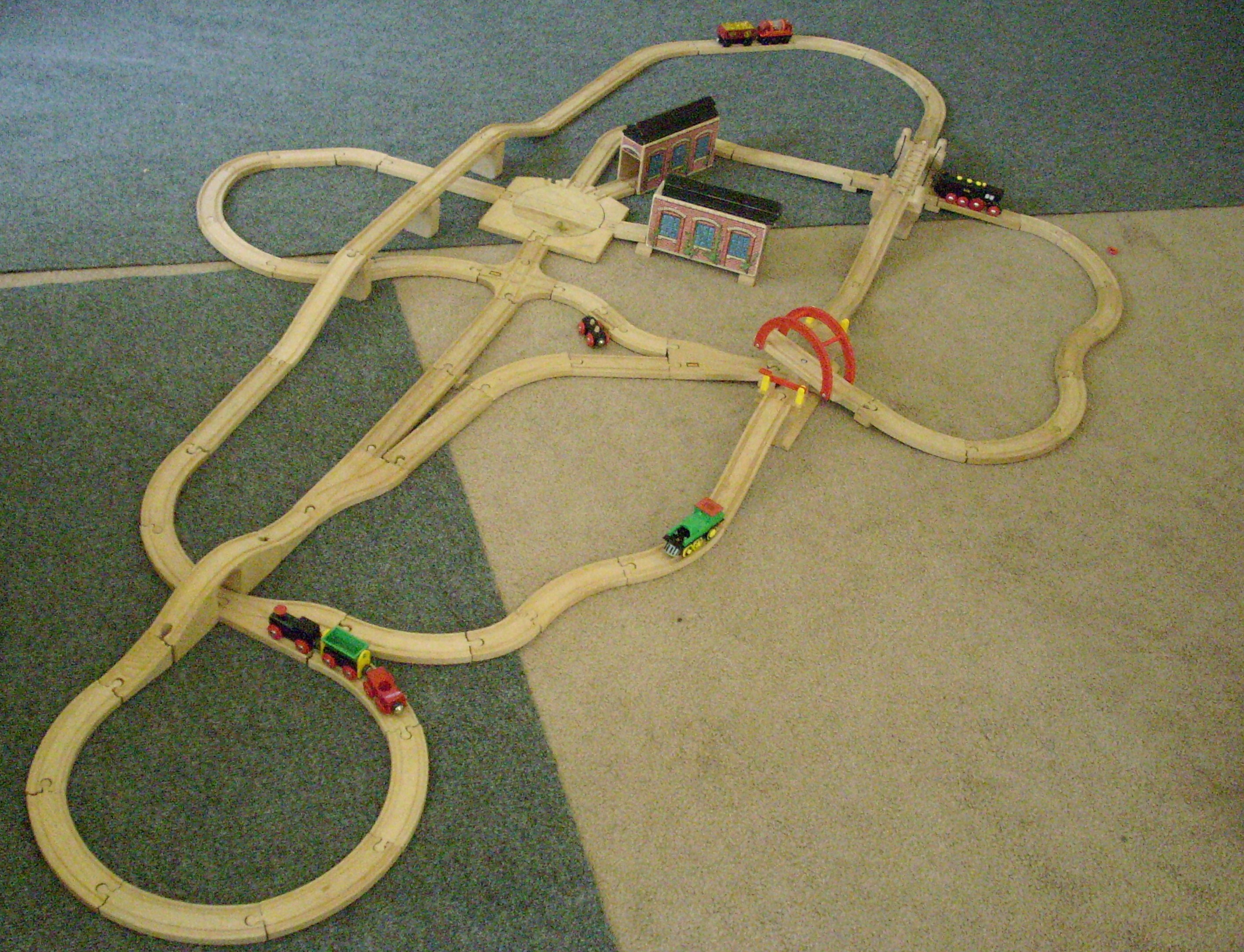 a BRIO toy train track